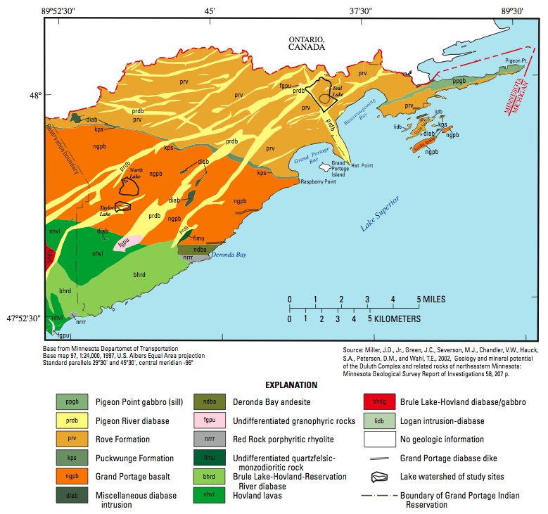 Bedrock geologic map of Northeastern Minnesota; prepared by the Minnesota Geological Survey and used by the USGS in, "Ground-Water/Surface-Water Interaction in Nearshore Areas of Three Lakes on the Grand Portage Reservation, Northeastern Minnesota, 2003-04"